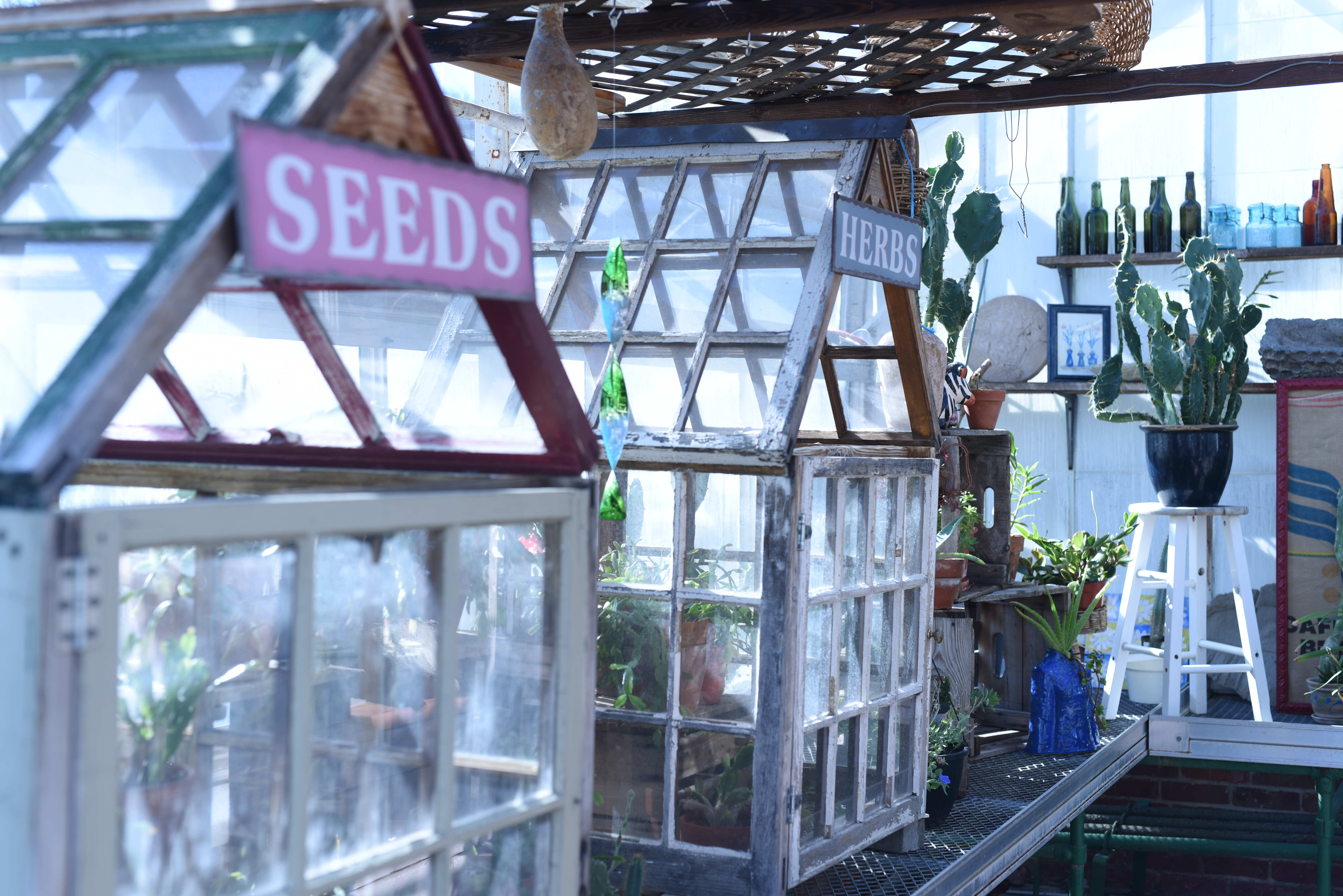 Southbury Greenhouse